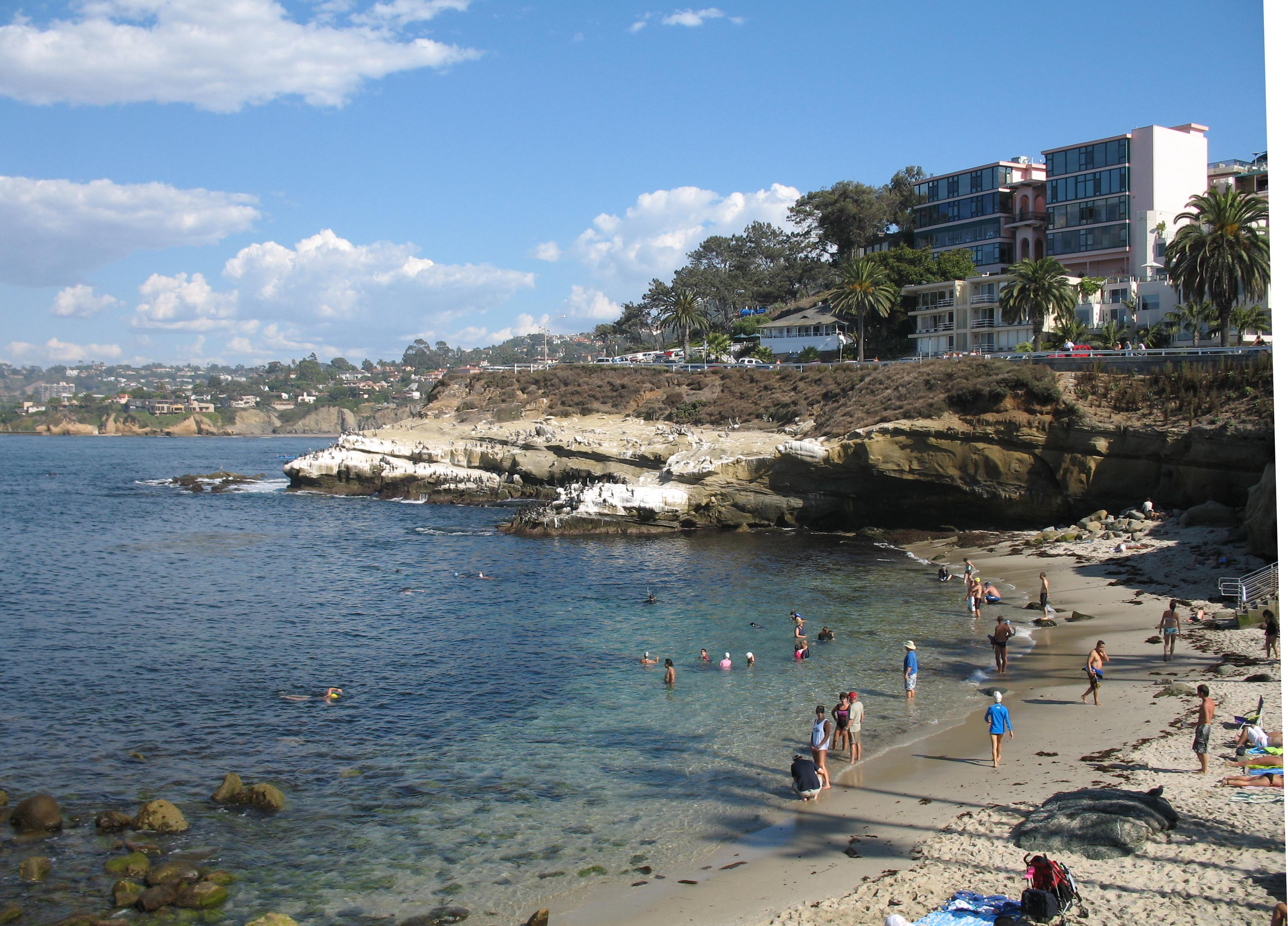 A view of La Jolla Cove from the south end, September 2006